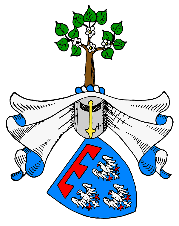 Leiningen coat of arms